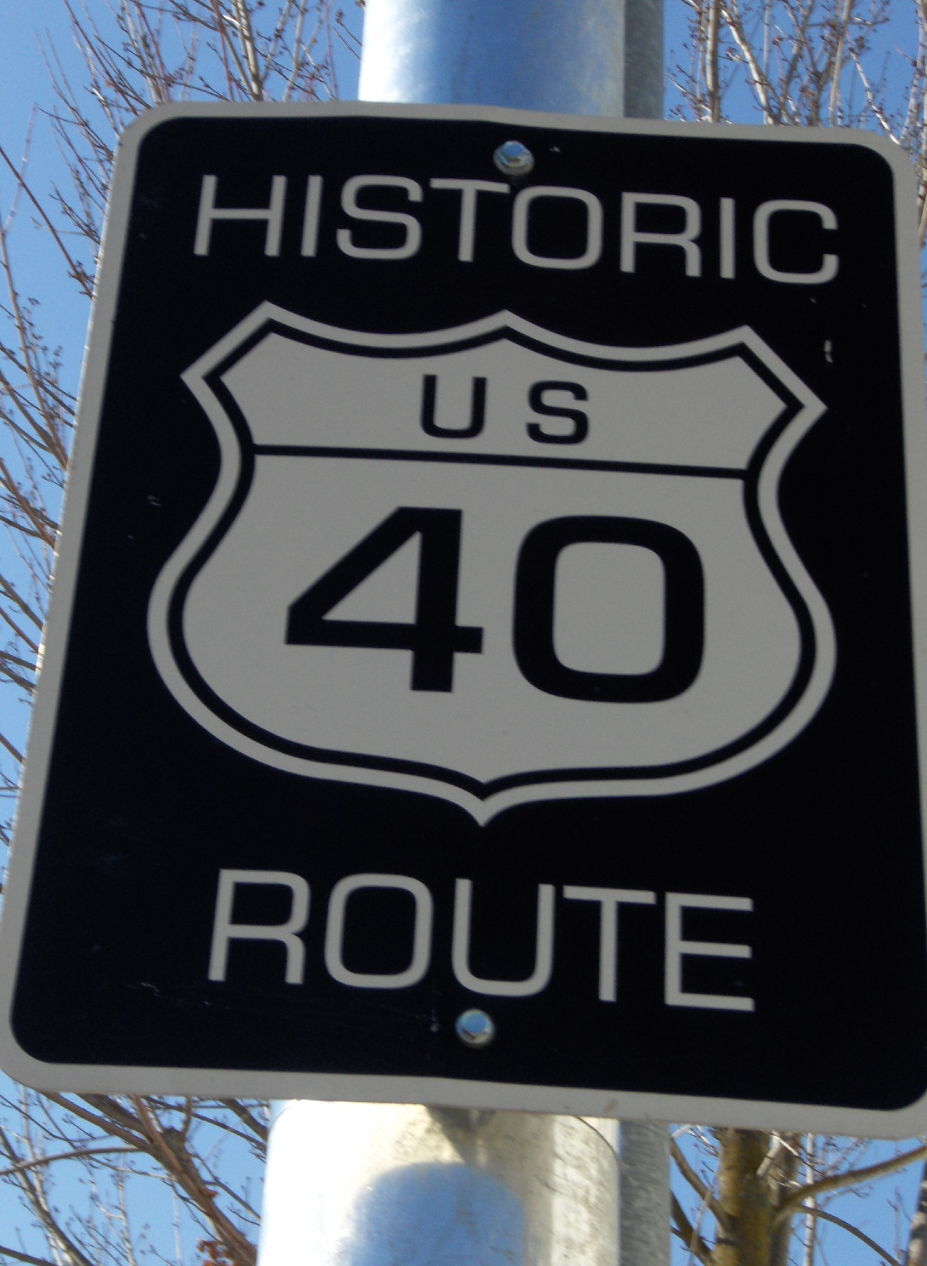 Historic U.S. 40 highway route sign — in Sacramento, California. Located at the intersection of Del Paso Blvd and Arden Way.